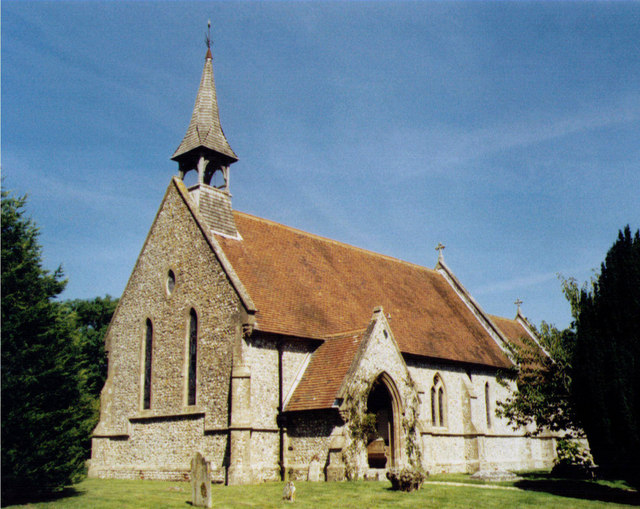 SS Peter and Paul parish church, Shalden, Hampshire, seen from the south